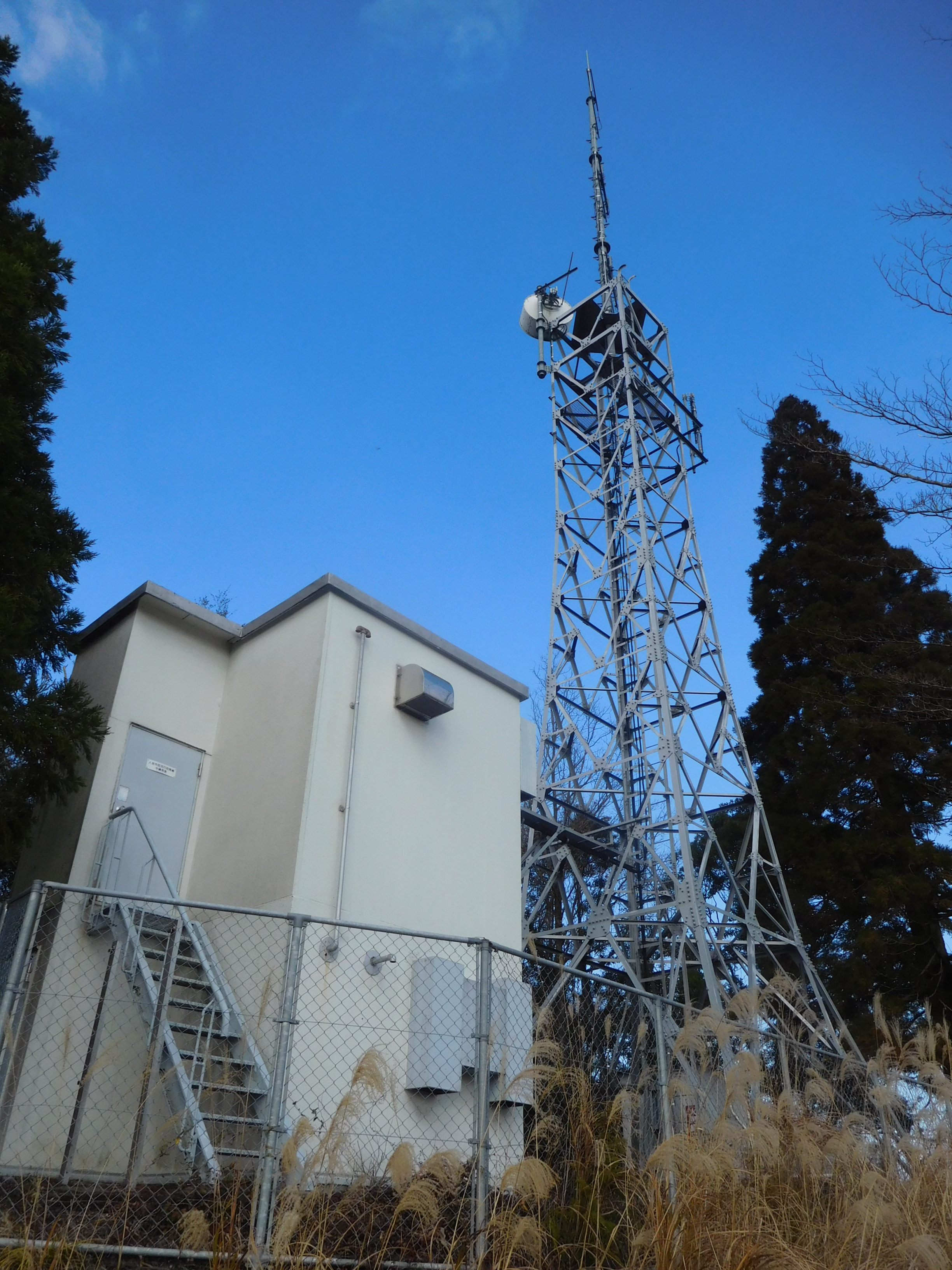 The Takatsukayama Disaster Prevention Radio Station of Hitoyoshi City, Formerly Kumamoto Kenmin TV (KKT) and Kumamoto Asahi Broadcasting (KAB) Hitoyoshi Analog TV Relay Station (Hitoyoshi City, Kumamoto, Japan).